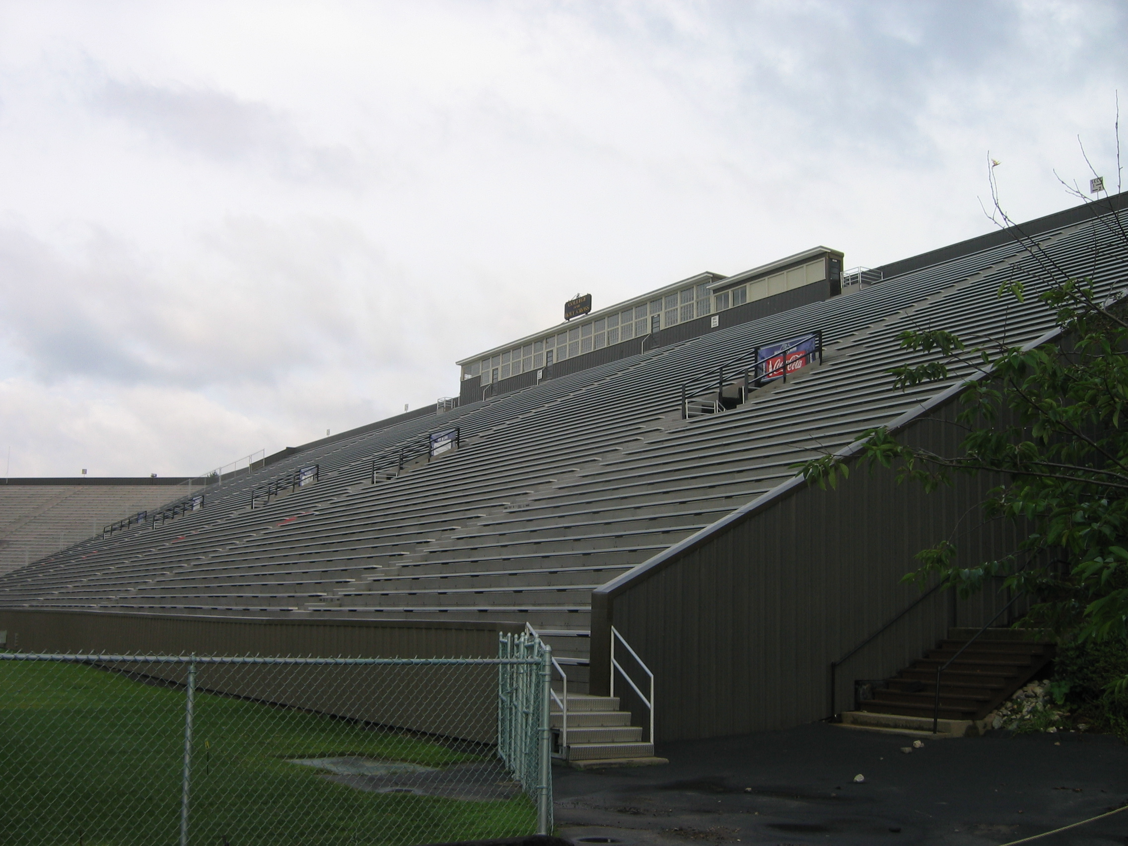 Football & Basketball Facilities U Holy Cross Stadium